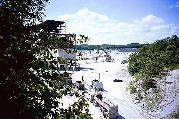 Dufferin Quarry along the Bruce Trail on the Niagara Escarpment in Milton. This picture was taken by David Sky on 35mm then scanned to JPG.